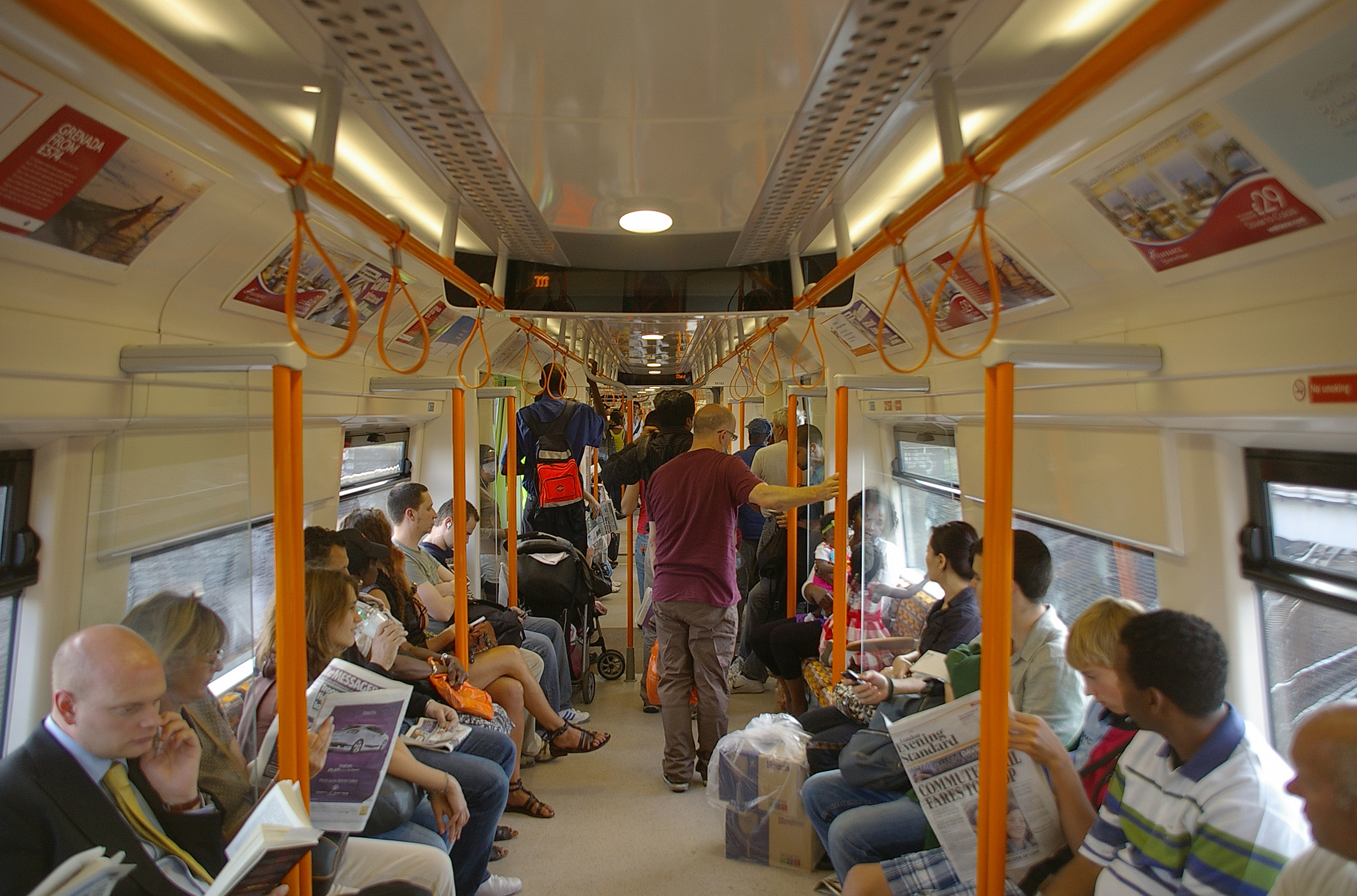 Passengers onboard 378005's London Overground North London Line service to Richmond. The Class 378 has tube-style seating for metro usage.